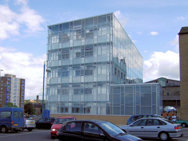 The Media Centre, Friendly Street Opened by the Queen this year (2007), the new Media Centre in Friendly Street is a glass-clad five storey building which "will be a landmark for Huddersfield, and will be the first of its size in the UK to feature a double-skin frame, creating a unique cooling system instead of the usual mechanical comfort cooling which is so harmful to the environment. The Centre will become a beacon for creative businesses, displayed through a commissioned programmable l.e.d. lighting design illuminating the façade of the new building."